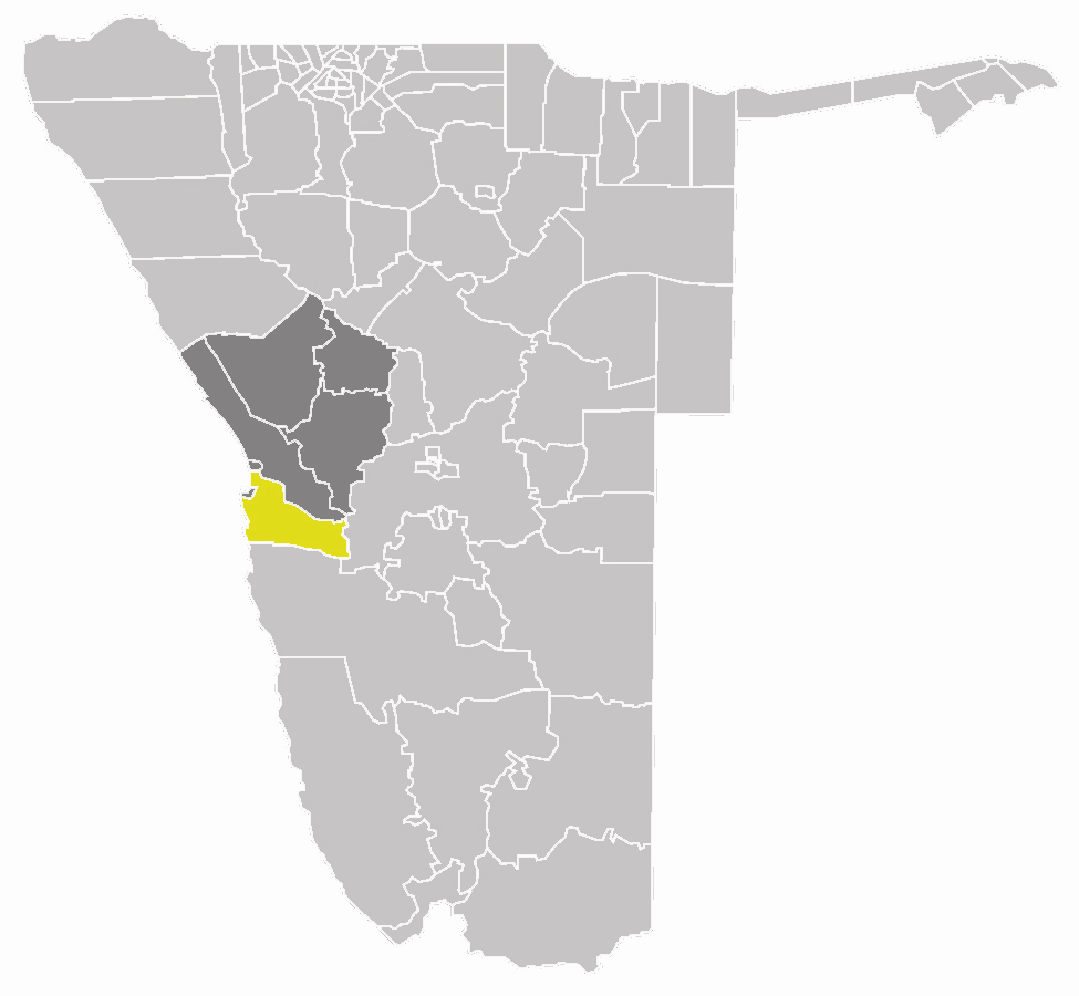 map of the Walvisbay Rural constituency within the Erongo region, Namibia